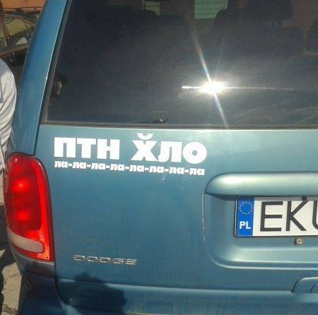 Putin Khuilo - Путин хуйло - label on car in Poland - 2014